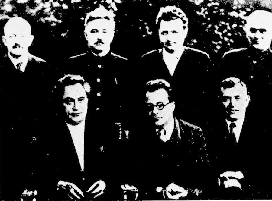 Members of Comintern Political Secretary Board, 1935. From left to right, sitting: G. Dymitrow, P. Togliatti, W. Florin; standing: O. Kuusinen, D. Manuilsky, K. Gottwald, W. Pieck